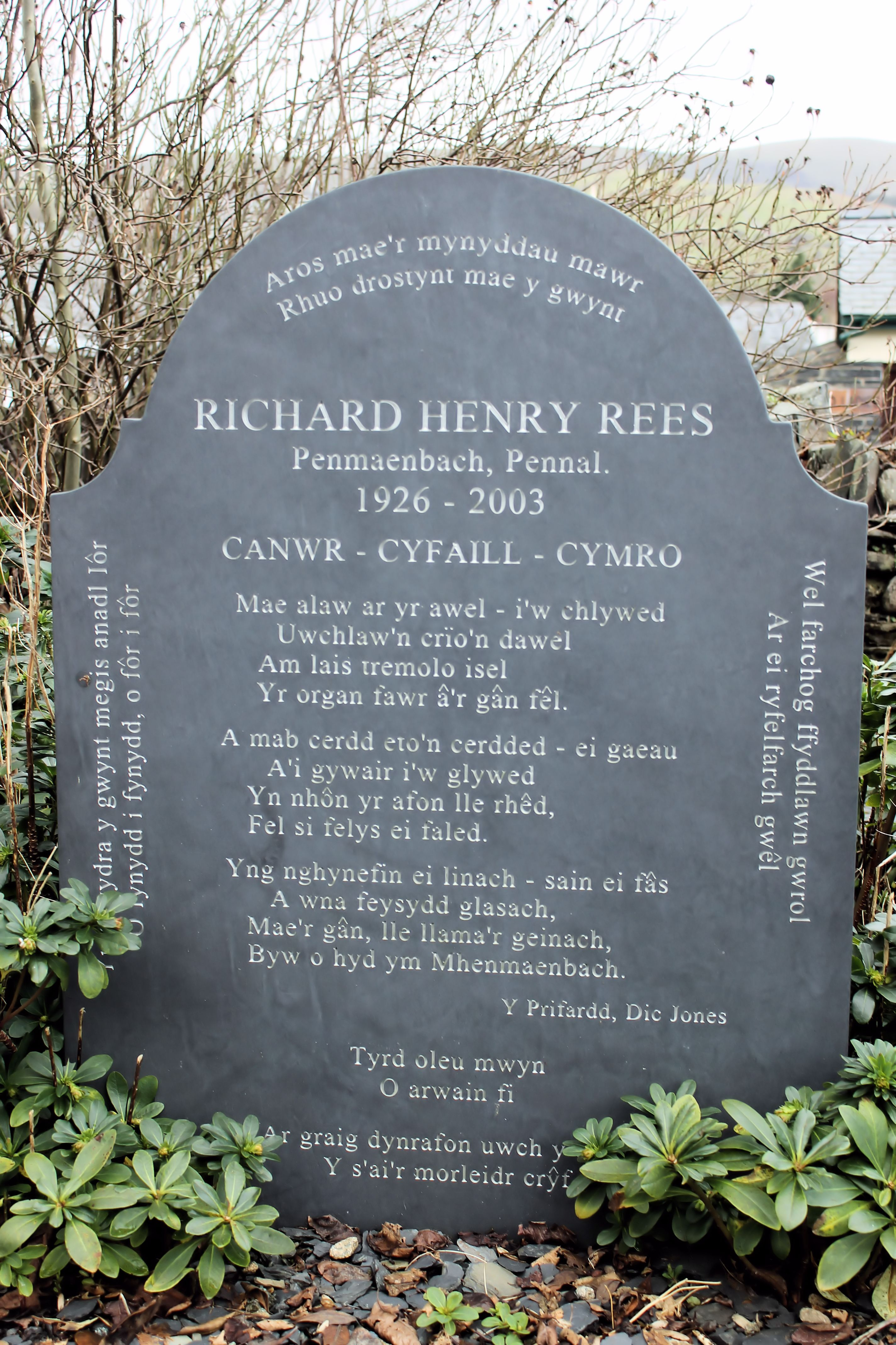 The village of Pennal, Gwynedd, North Wales. Richard Rees, base singer and farmer: gravestone. St Tannwg and St Eithrias Church. Royal Chapel of the Prince Owain Glyndŵr.